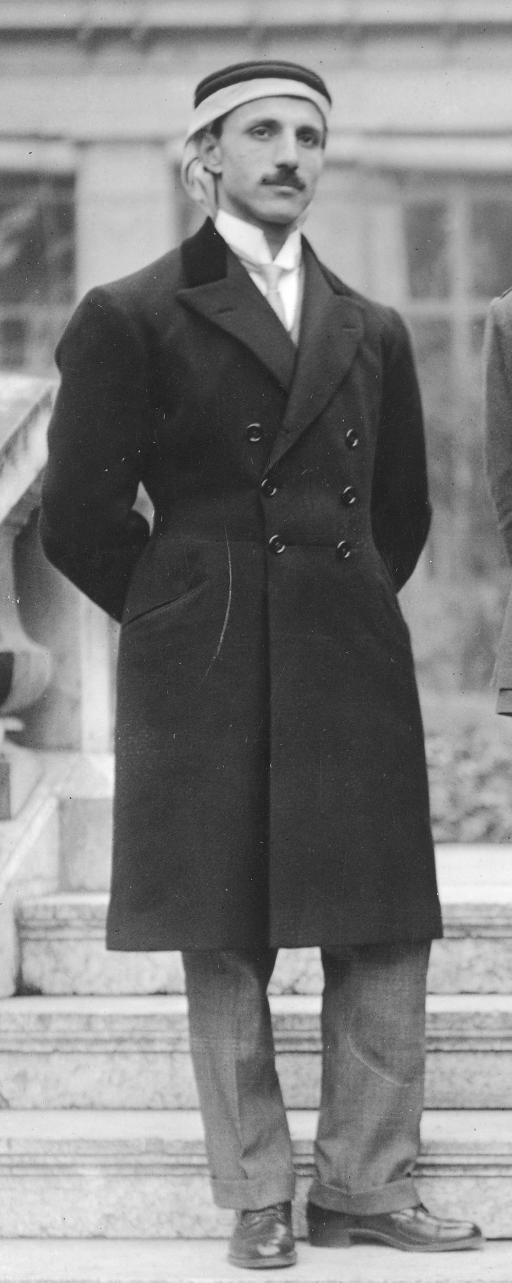 Feisal party at Versailles Conference. Left to right: Rustum Haidar, Nuri as-Said, Prince Faisal (front), Captain Pisani (rear), T. E. Lawrence, Faisal's slave (name unknown), Captain Hassan Khadri.